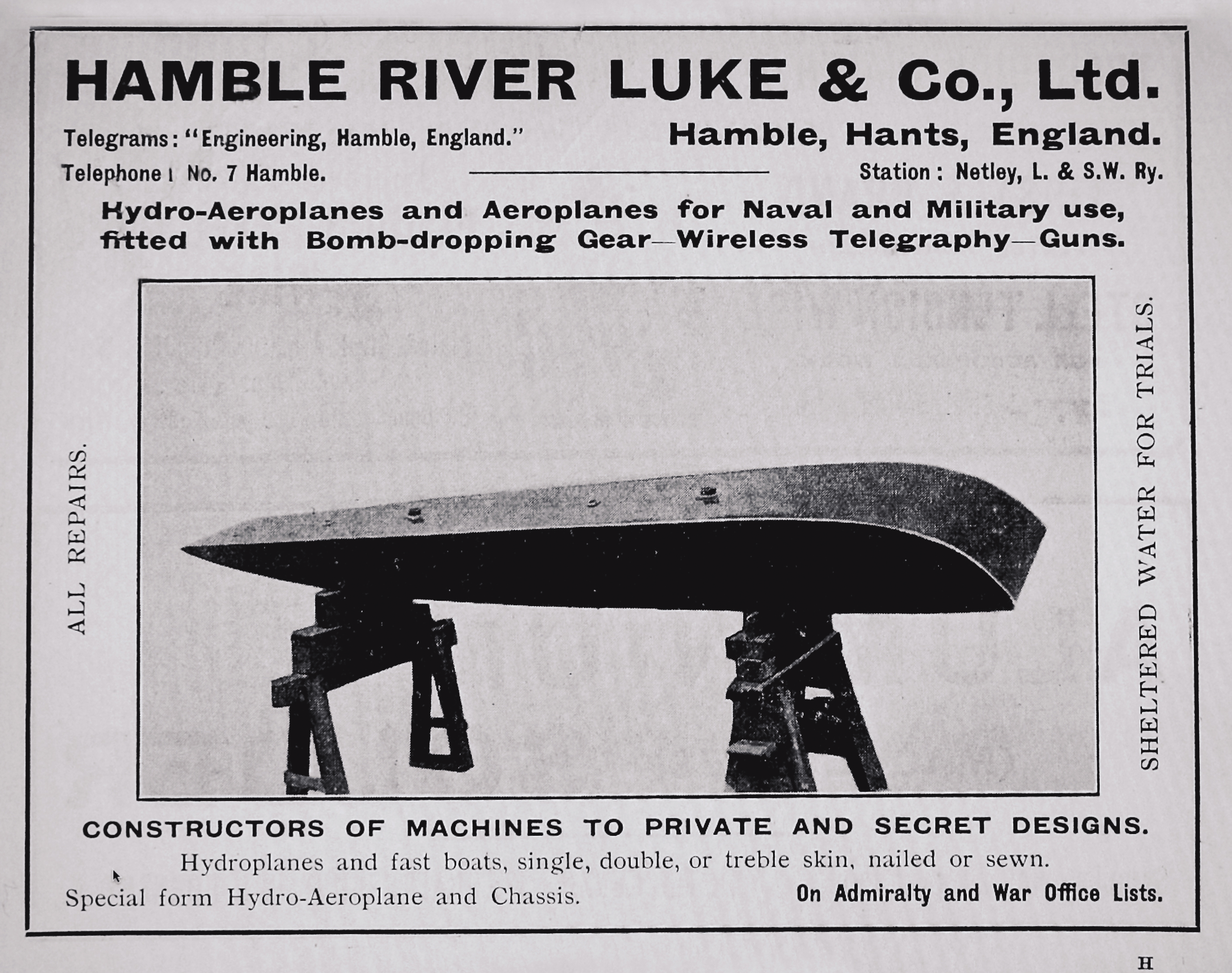 advertisement Luke & co Airplane building 1915